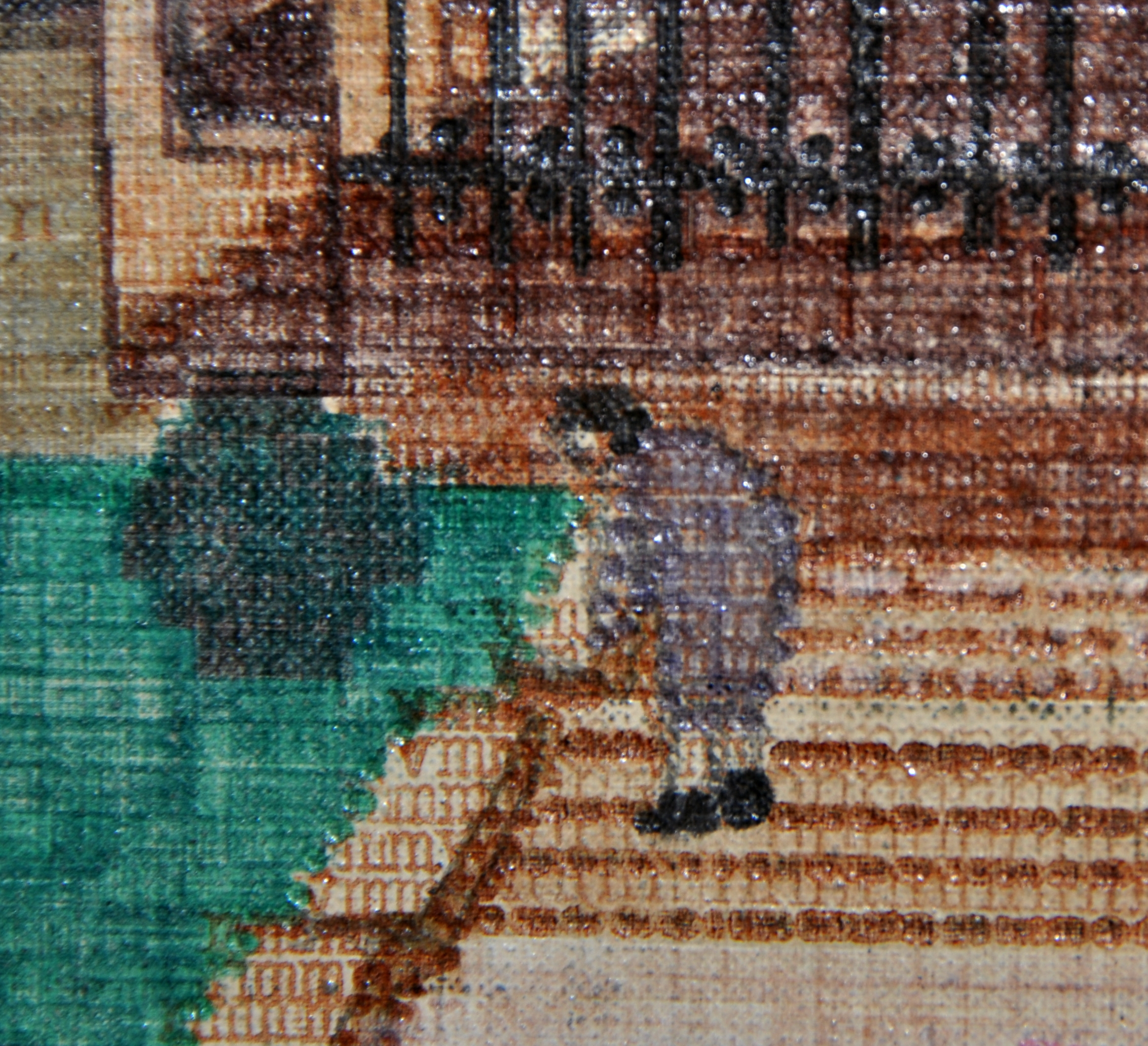 Cathedral of Barcelona. A Montserrat Alberich work created using a typewriter. Barcelona City History Museum MUHBA